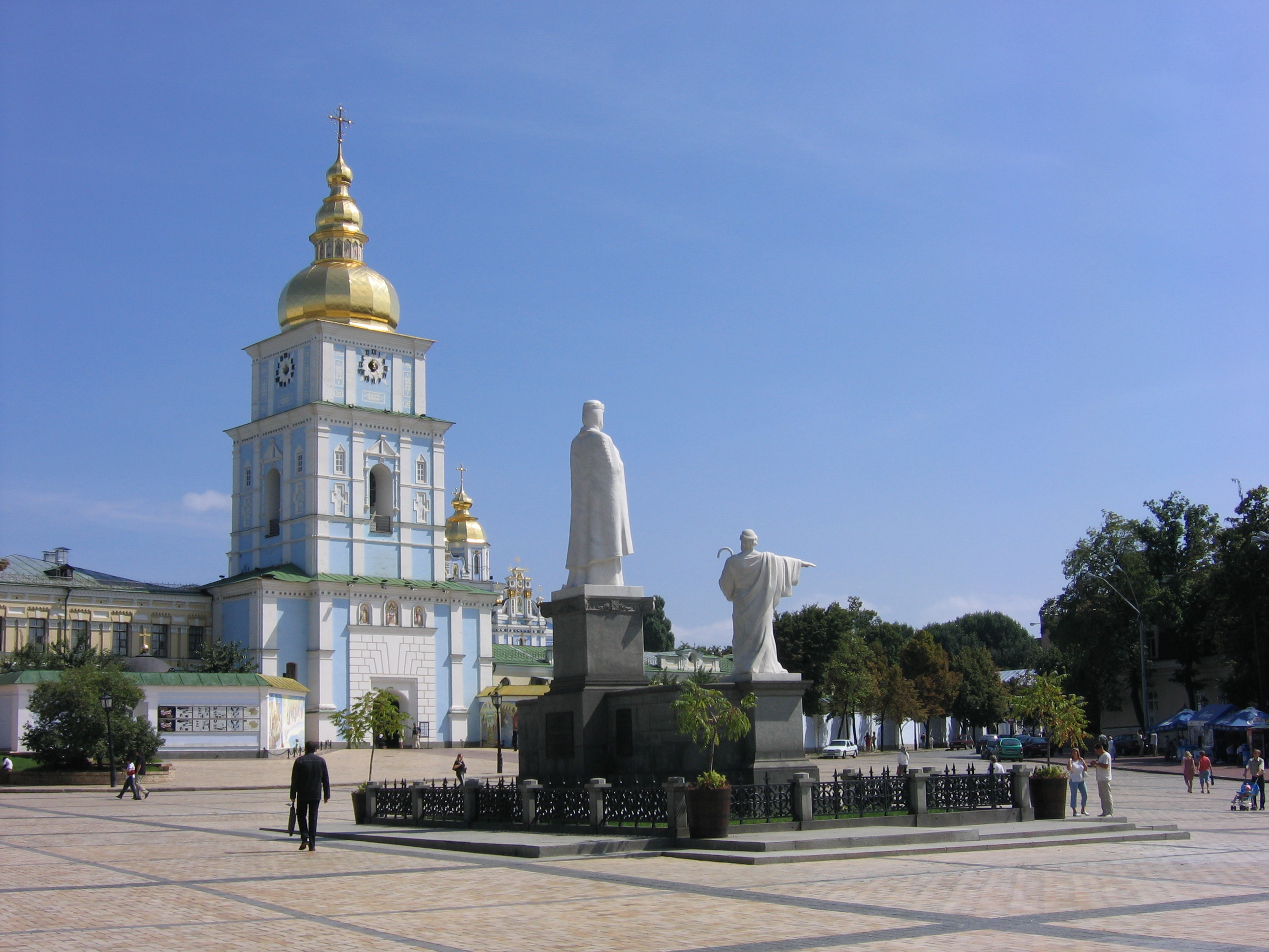 St. Michael's cathedral in Kiev, Ukraine